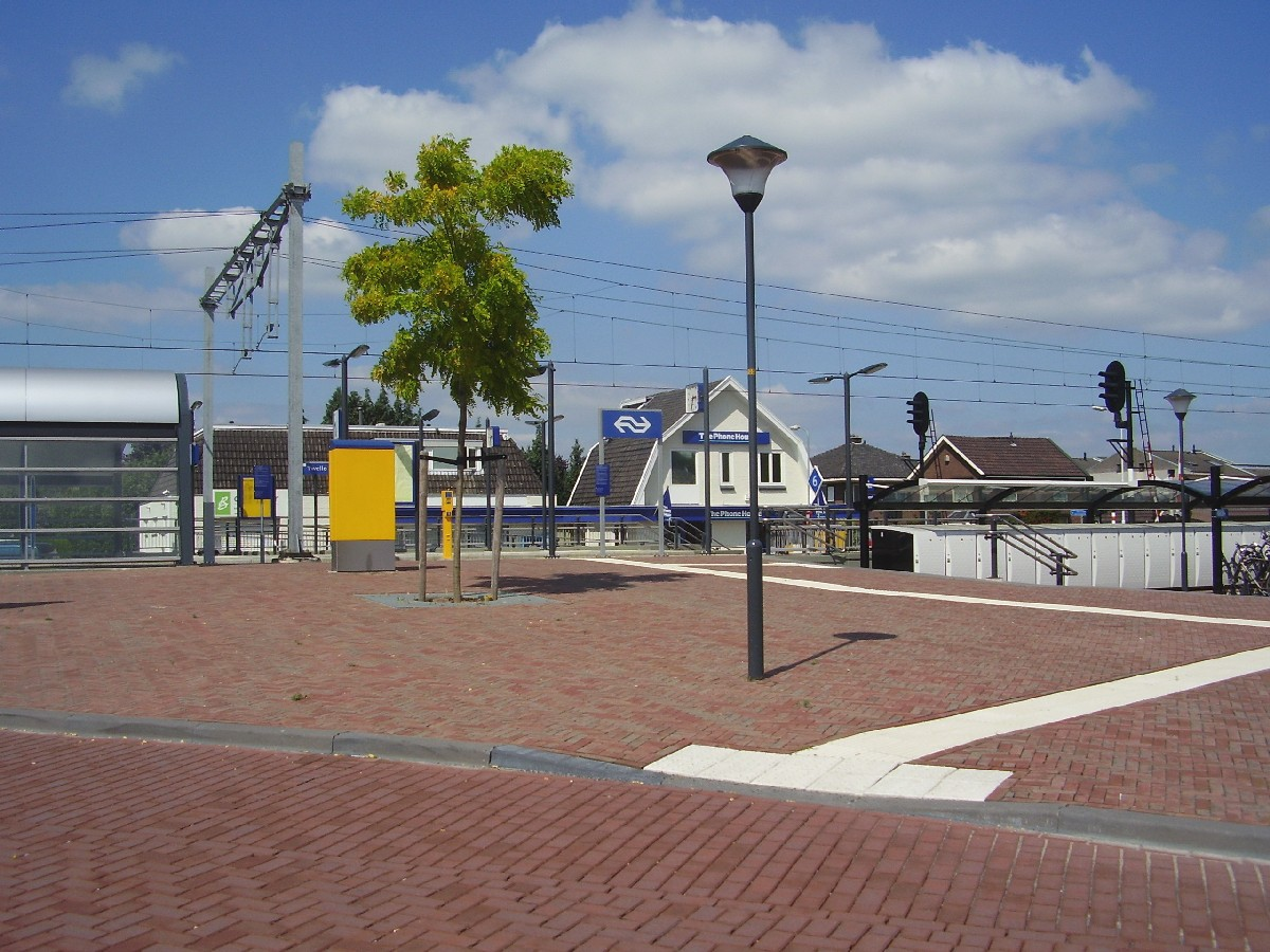 Station Twello, the Netherlands